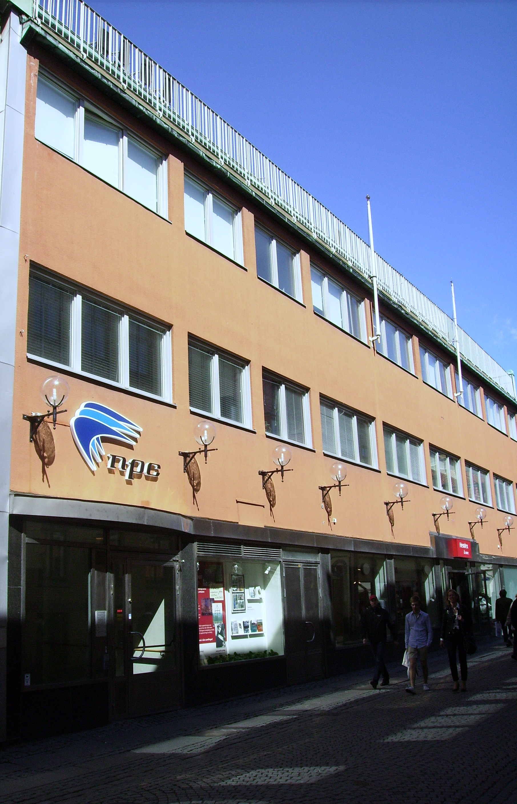 Picture of DAG in Göteborg (Archive)